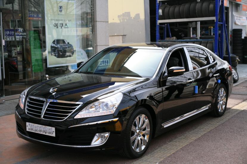 Hyundai Equus(a.k.a Genesis Prestige), KDM, Korean Version.